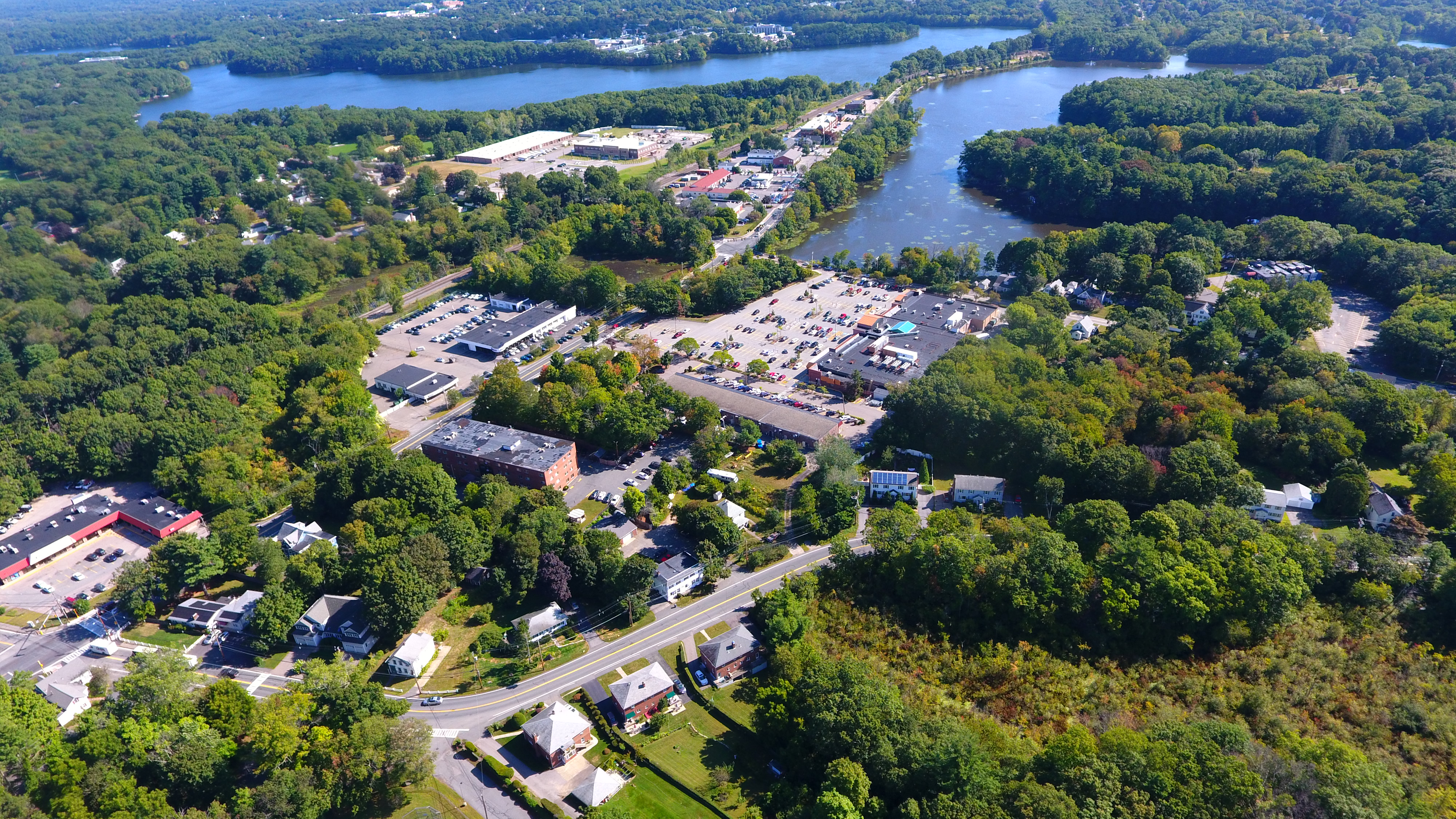 Speen, Mill, & West Central Streets